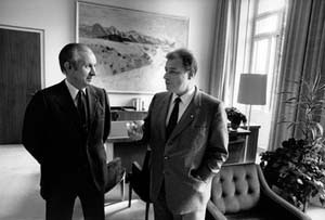 Juan Antonio Samaranch (left) and Jean-Pascal Delamuraz (right)